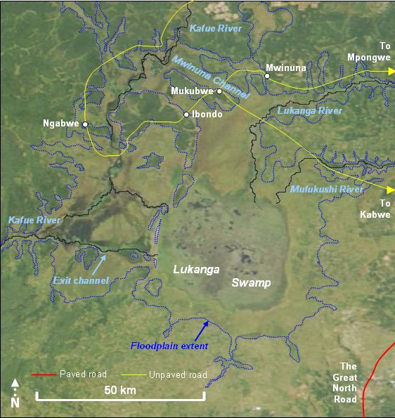 Map of Lukanga Swamp, Zambia, showing the Kafue River.